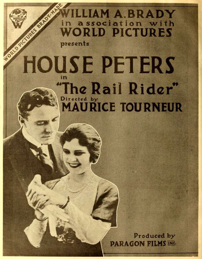 Advertisement in The Moving Picture World for the American drama film The Rail Rider (1916).